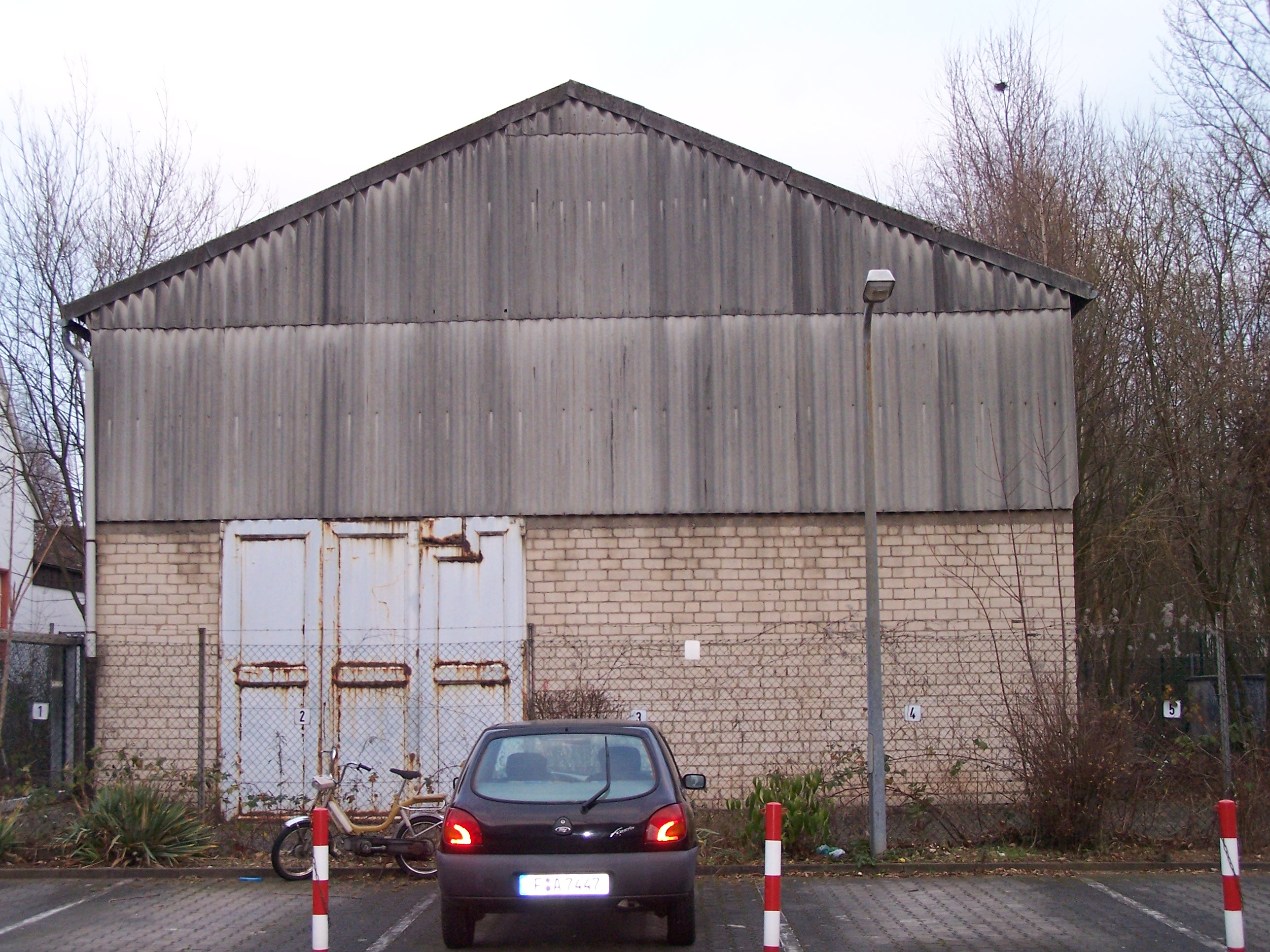 Front side of the former tram depot in Frankfurt-Eschersheim